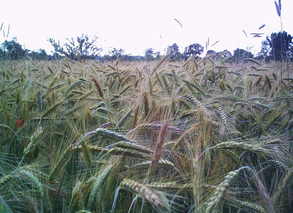 Rye